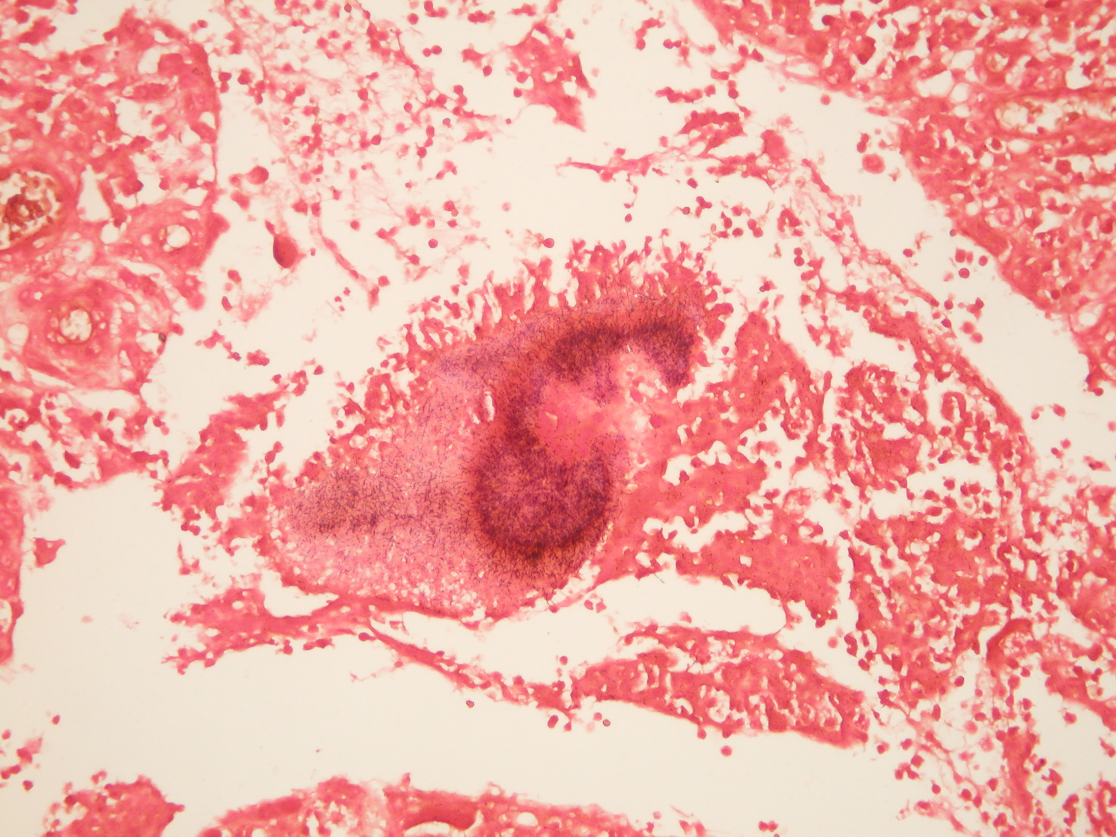 Actinomycosis GRAM'S General Surgery Dept King Saud Medical Complex Riyadh